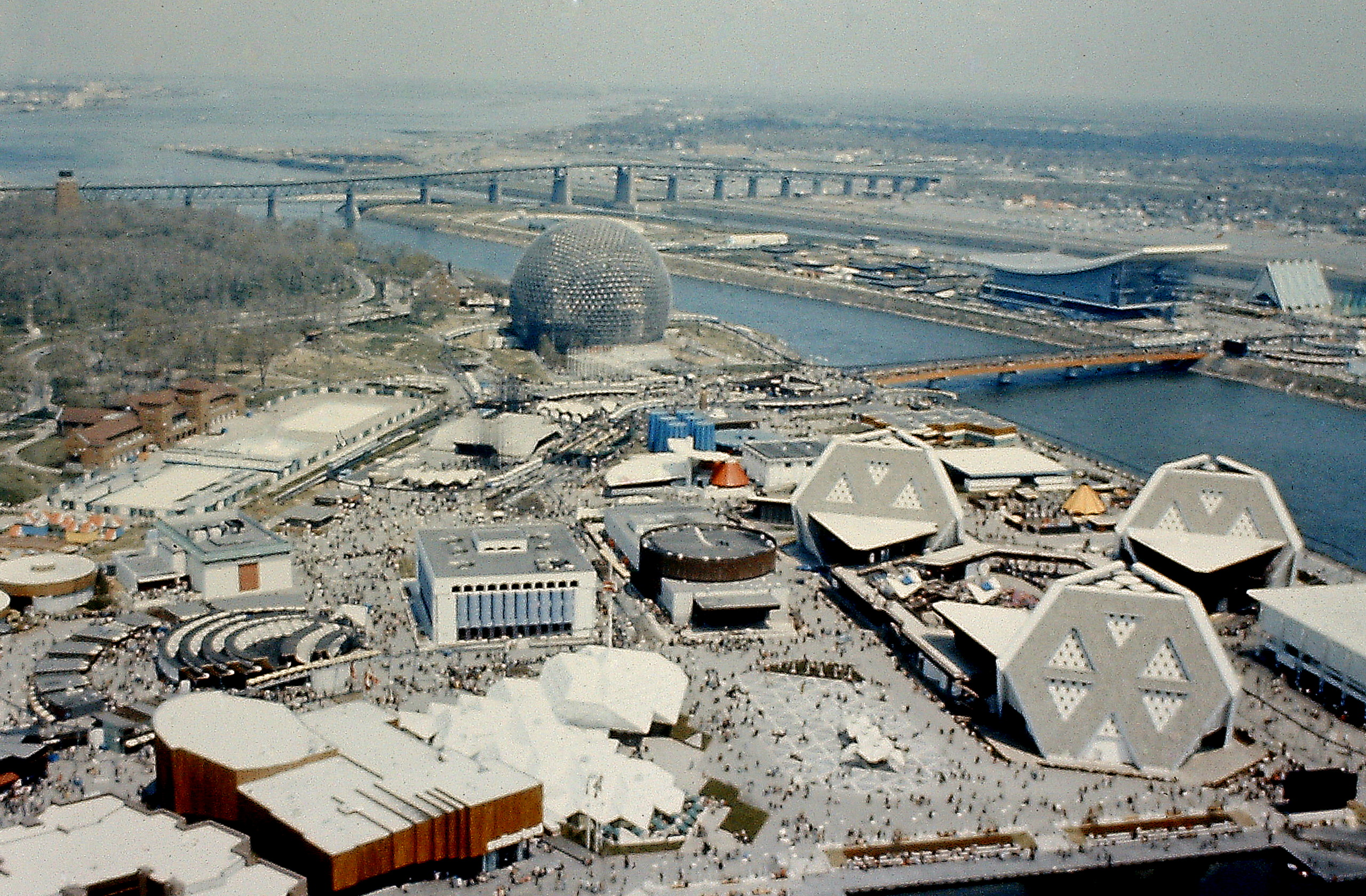 Overview of Île Sainte-Hélène at Universal Exposition of 1967, Montreal, Quebec, Canada